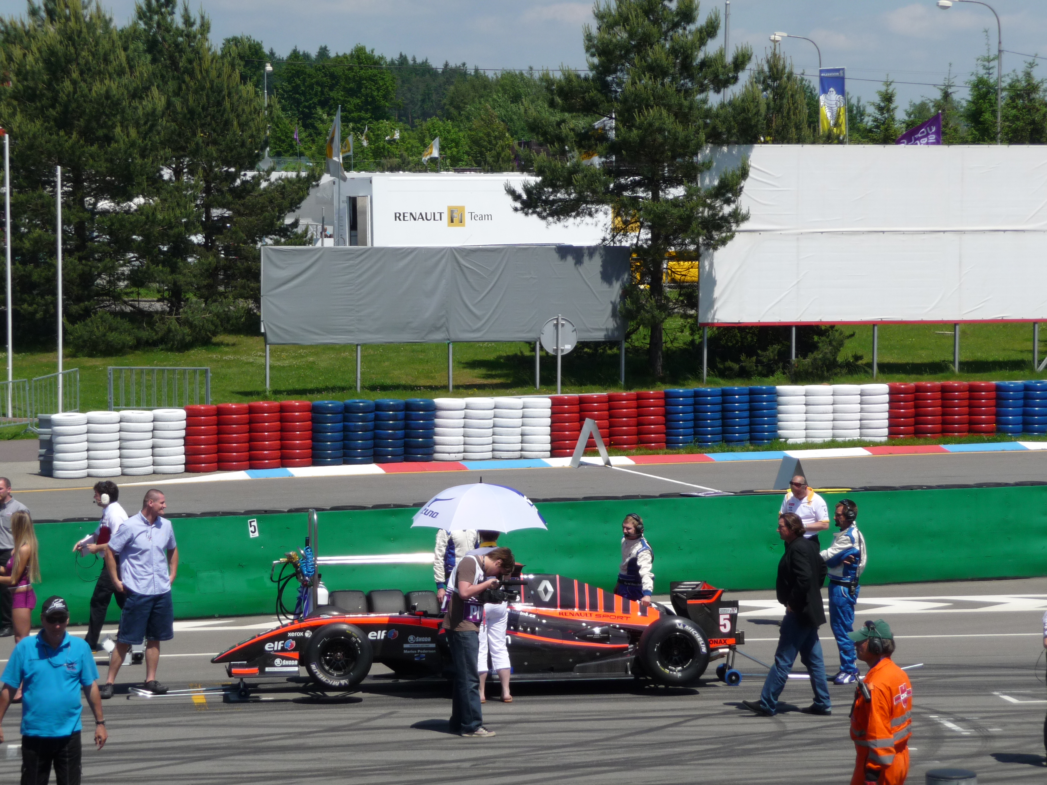 Walter Grubmüller, Formula Renault 3.5 Series, 2nd race, 2010 Brno World Series by Renault -10-5-3-2◄►+2+3+5+10